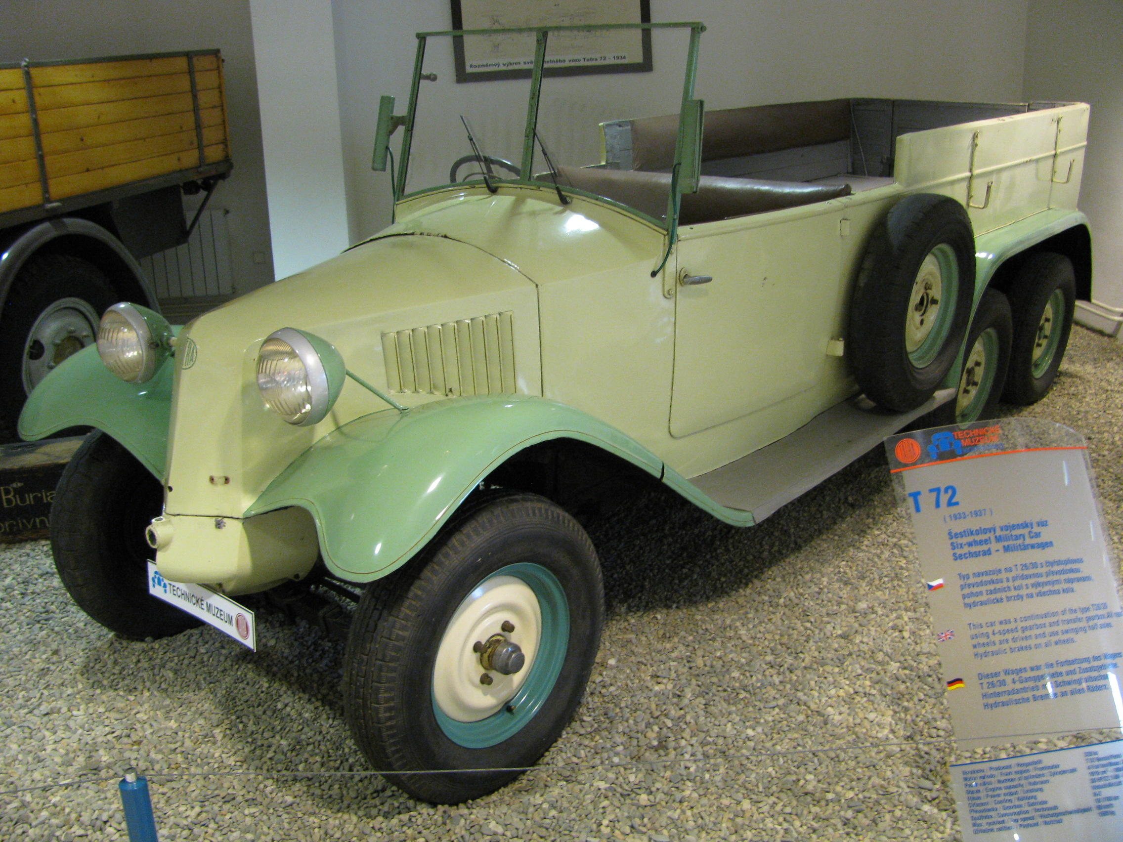 Tatra 72 (T72) in Tatra Technical Museum, Kopřivnice, Czech Republic.